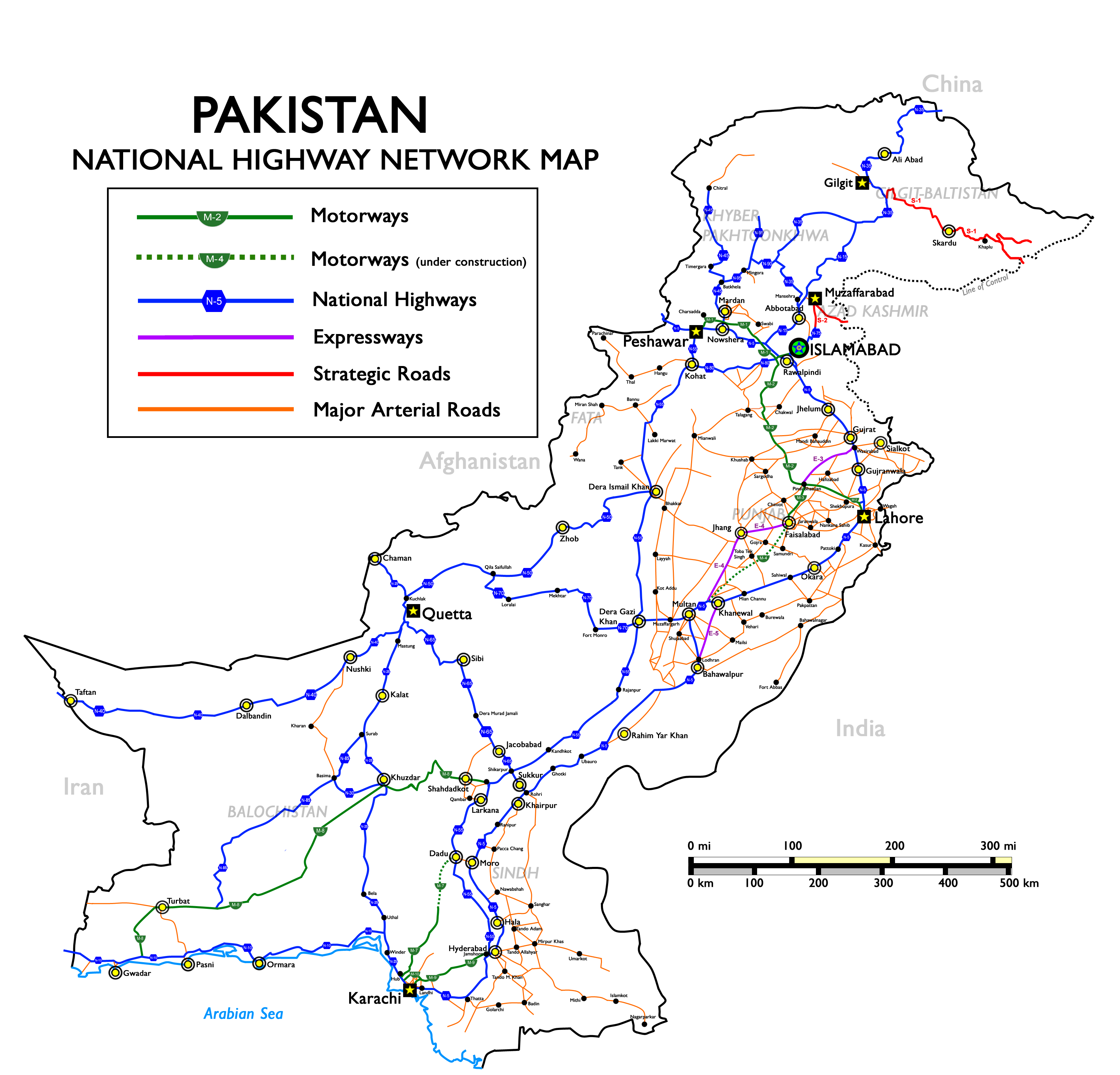 National Highways, Motorways & Strategic Roads in Pakistan. (Longest route N-5, from Karachi to Torkham, covering cities of Hyderabad, Multan, Lahore, Rawalpindi and Peshawar with a total length of 1,756 kilometers.)